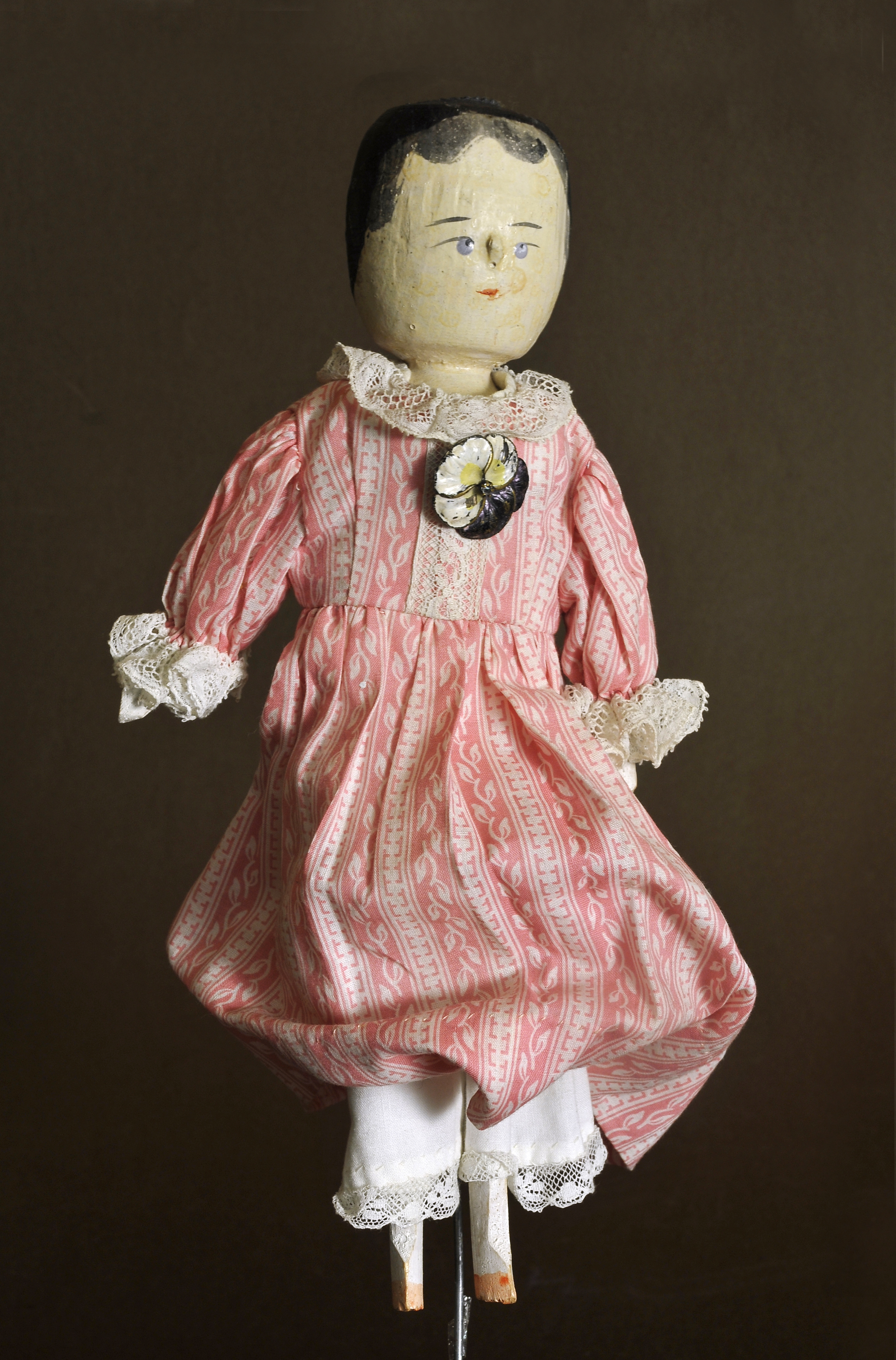 Stick doll or penny doll, in England called also dutch dolls from Val Gardena late 19th century.